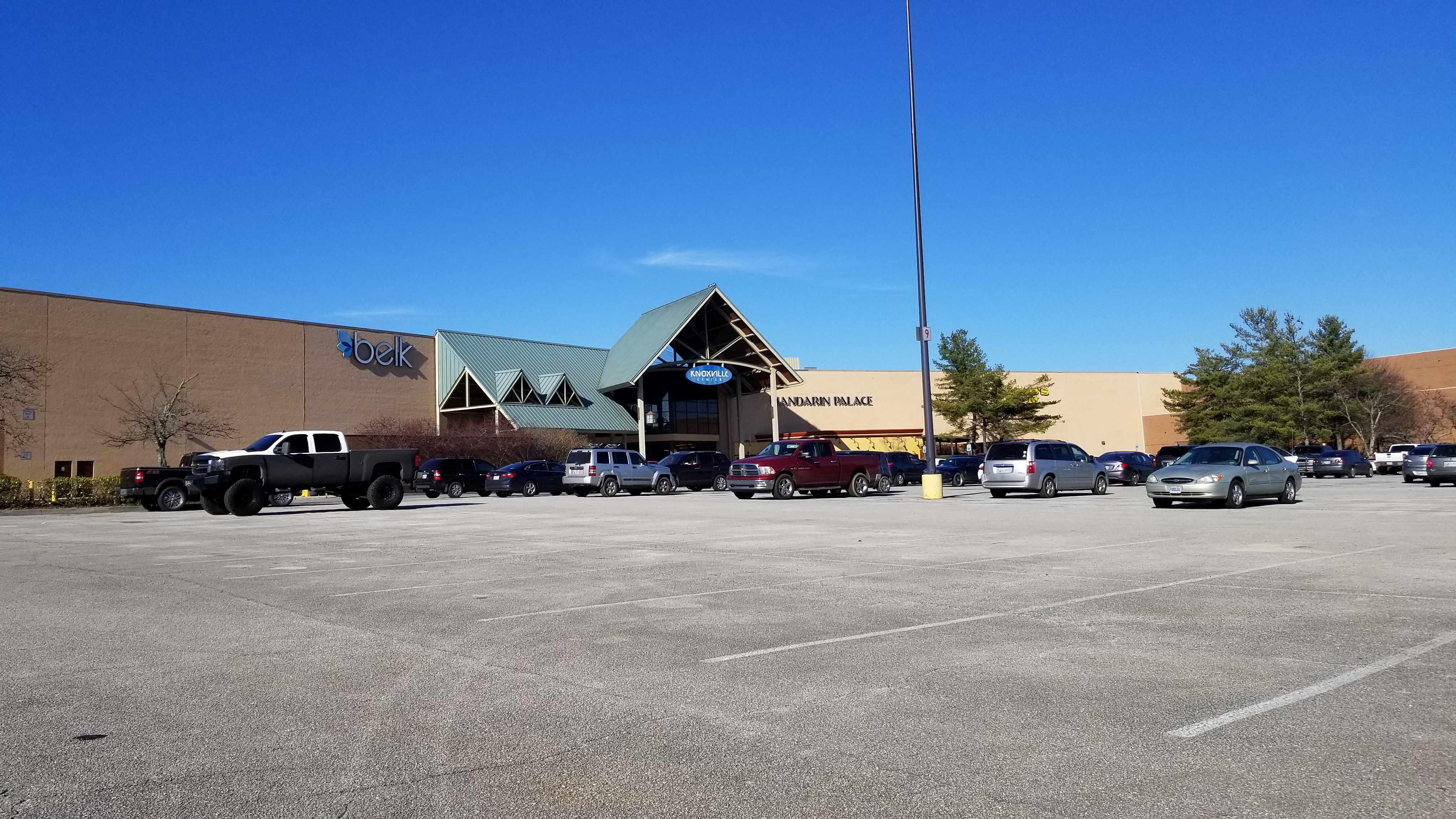 East Town Mall (Knoxville Center) Knoxville, TN March 2018